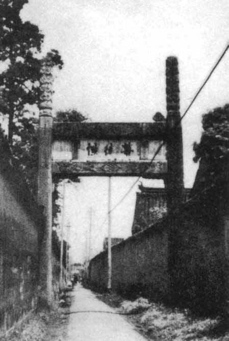 An old picture of Sanyuanfang in Suzhou, Jiangsu, PRC.